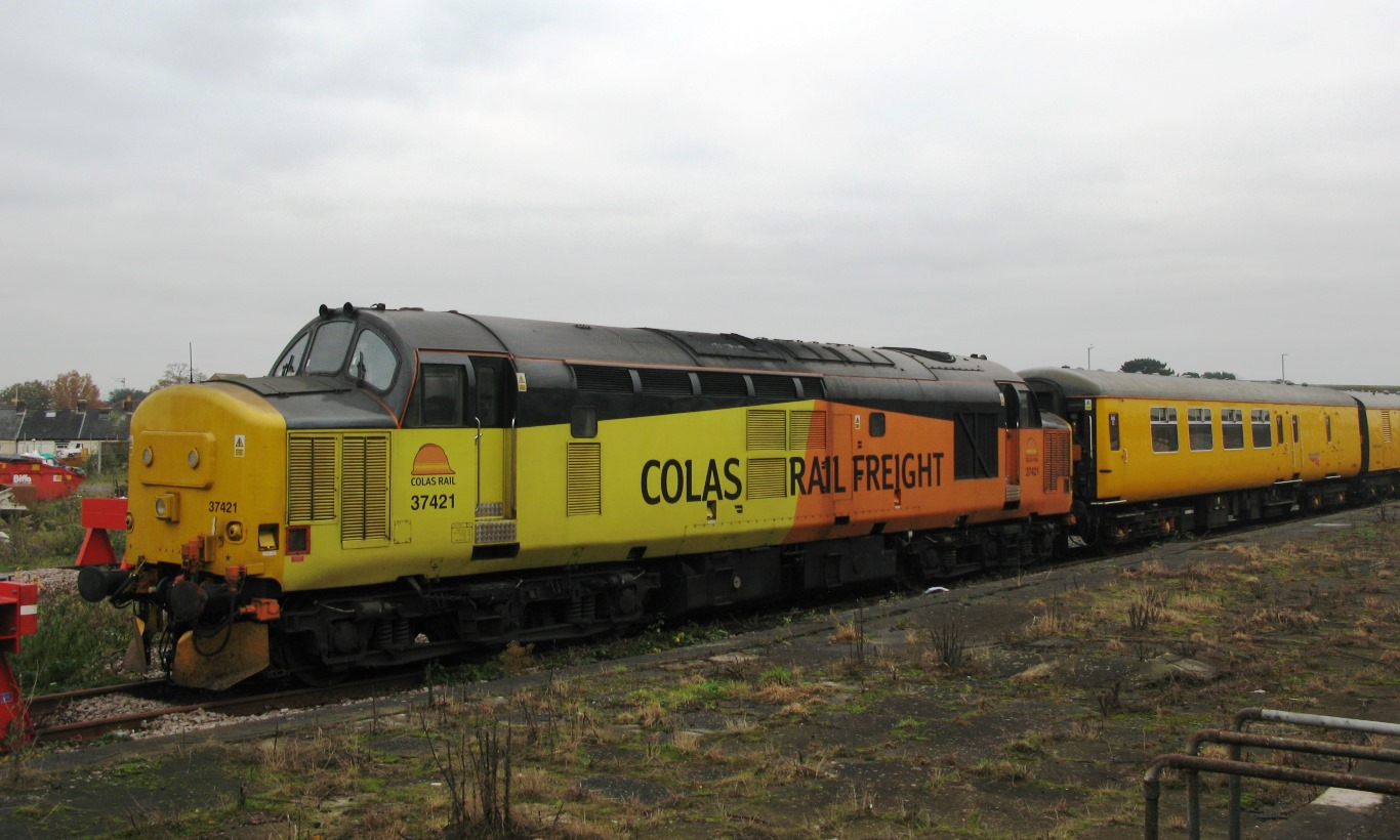 The Network Rail ultrasonic test train was on its way from Derby to Exeter on 21 November 2016 when its path was blocked by a flood at Cowley Bridge following two days of heavy rain. The train, with Colas Rail's 37421 providing the power, was terminated at Taunton where it remained for two days.